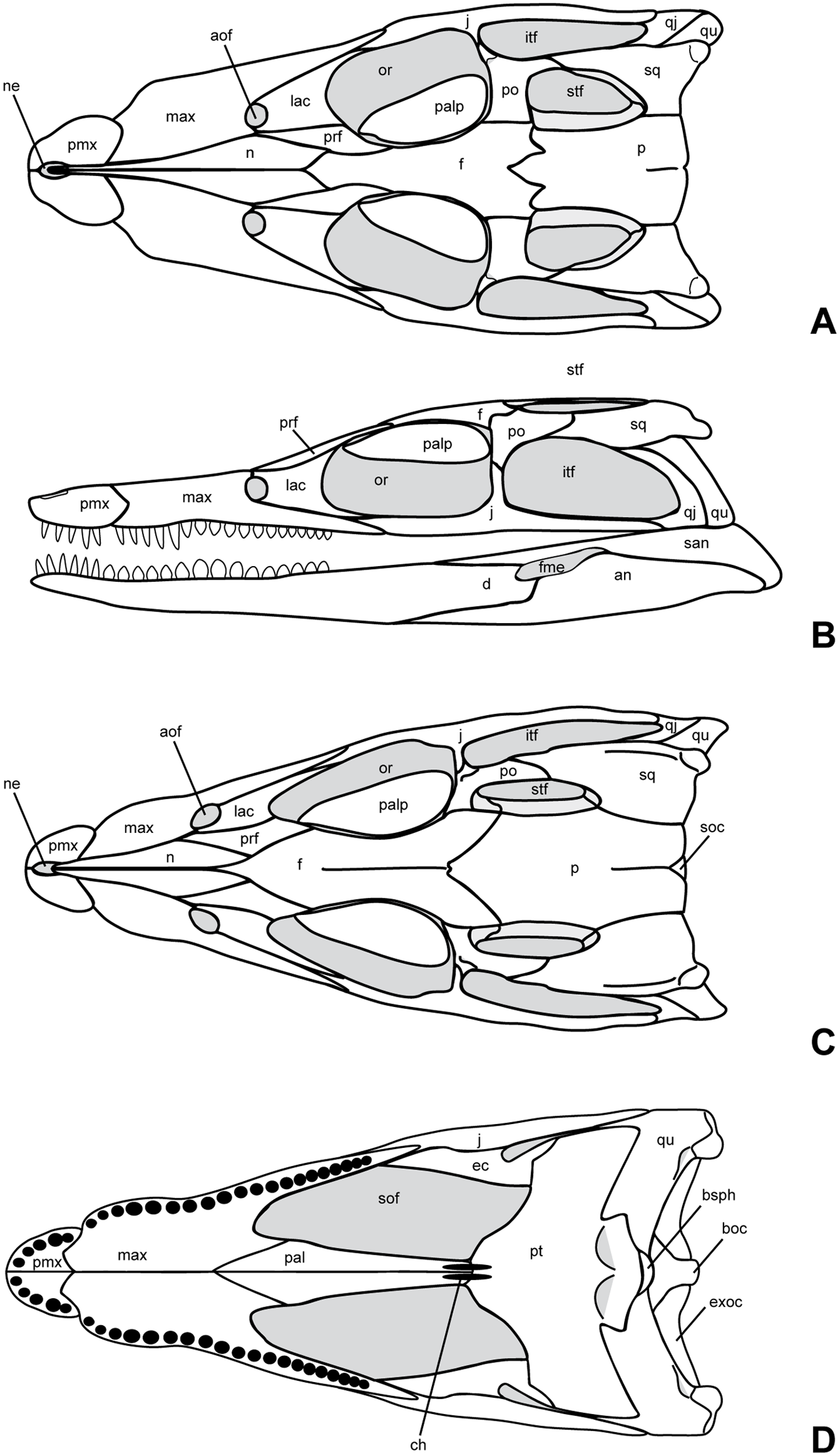 Fig 7. Reconstructions of the skull and mandible of Knoetschkesuchus langenbergensis gen. nov. sp. nov. Reconstruction of larger skull based on specimen DFMMh/FV 200, missing information supplemented with information from skull DFMMh/FV 605. (A) Dorsal aspect. (B) Left lateral aspect with mandible. Reconstruction of juvenile specimen DFMMh/FV 605, based on skull morphology and 3D data obtained in MeshLab. (C) Dorsal aspect. (D) Ventral aspect. For anatomical abbreviations, see text. Not to scale.